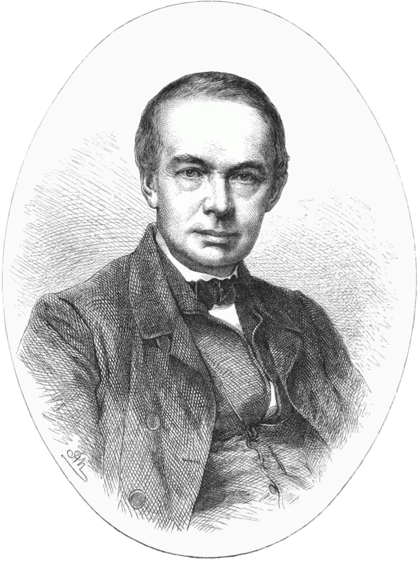 Heinrich Brockhaus (1804–1874) German bookseller, publisher and politician